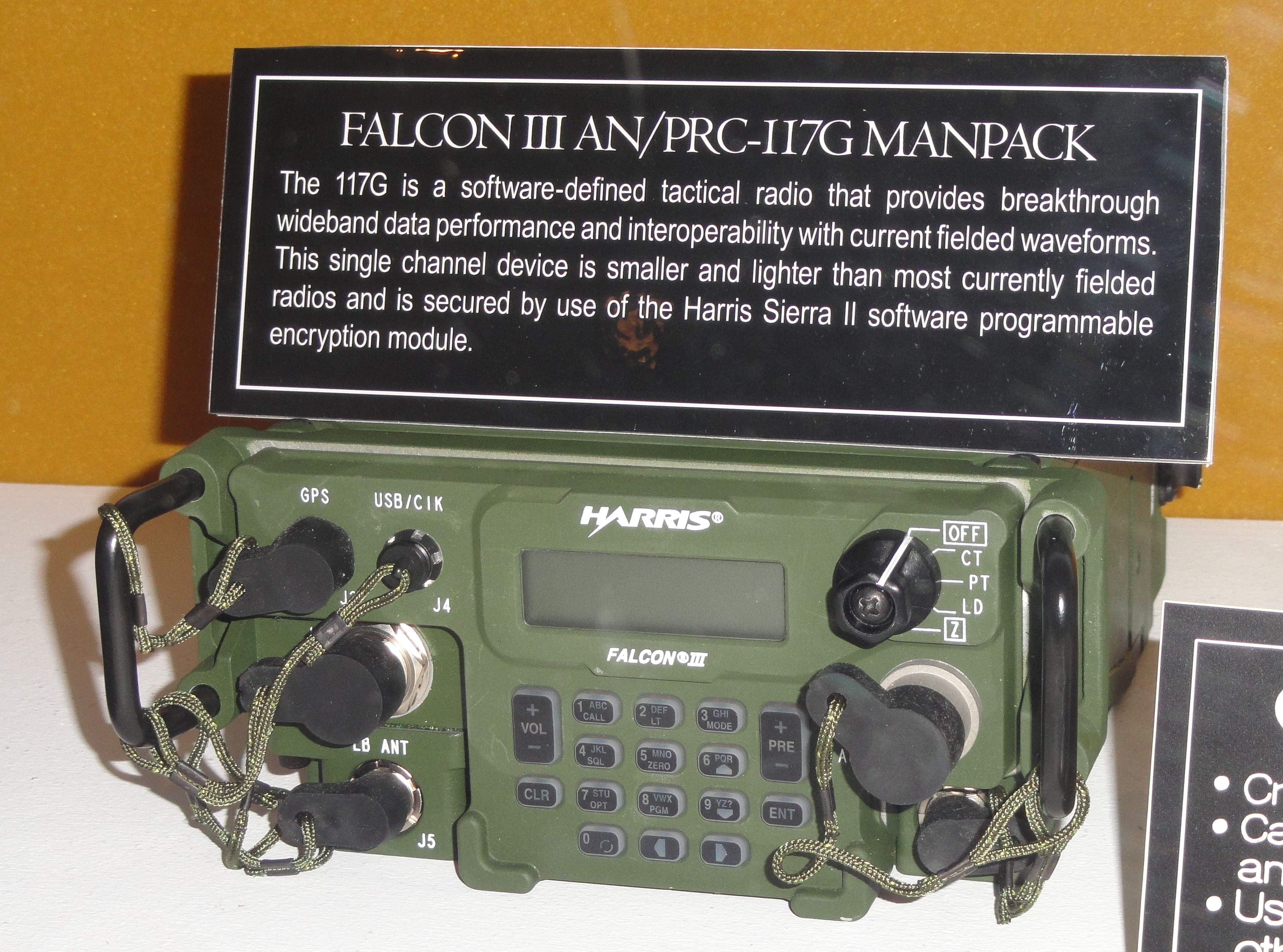 Exhibit in the National Cryptologic Museum, Fort Meade, Maryland, USA. All items in this museum are unclassified; items created by the United States Government are not subject to copyright restrictions.